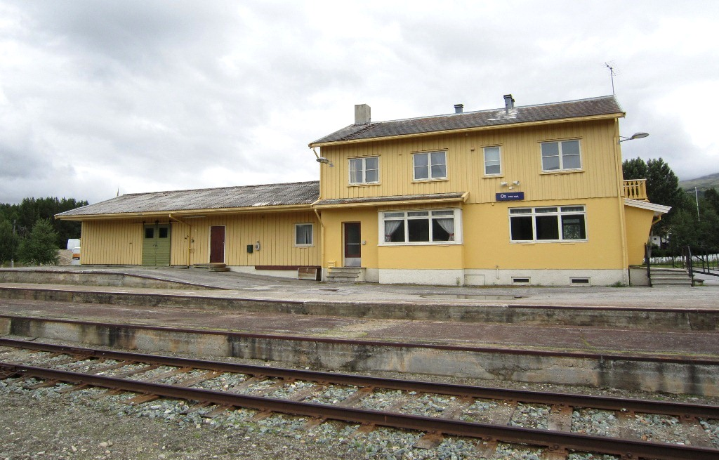 Os station on the Røros line